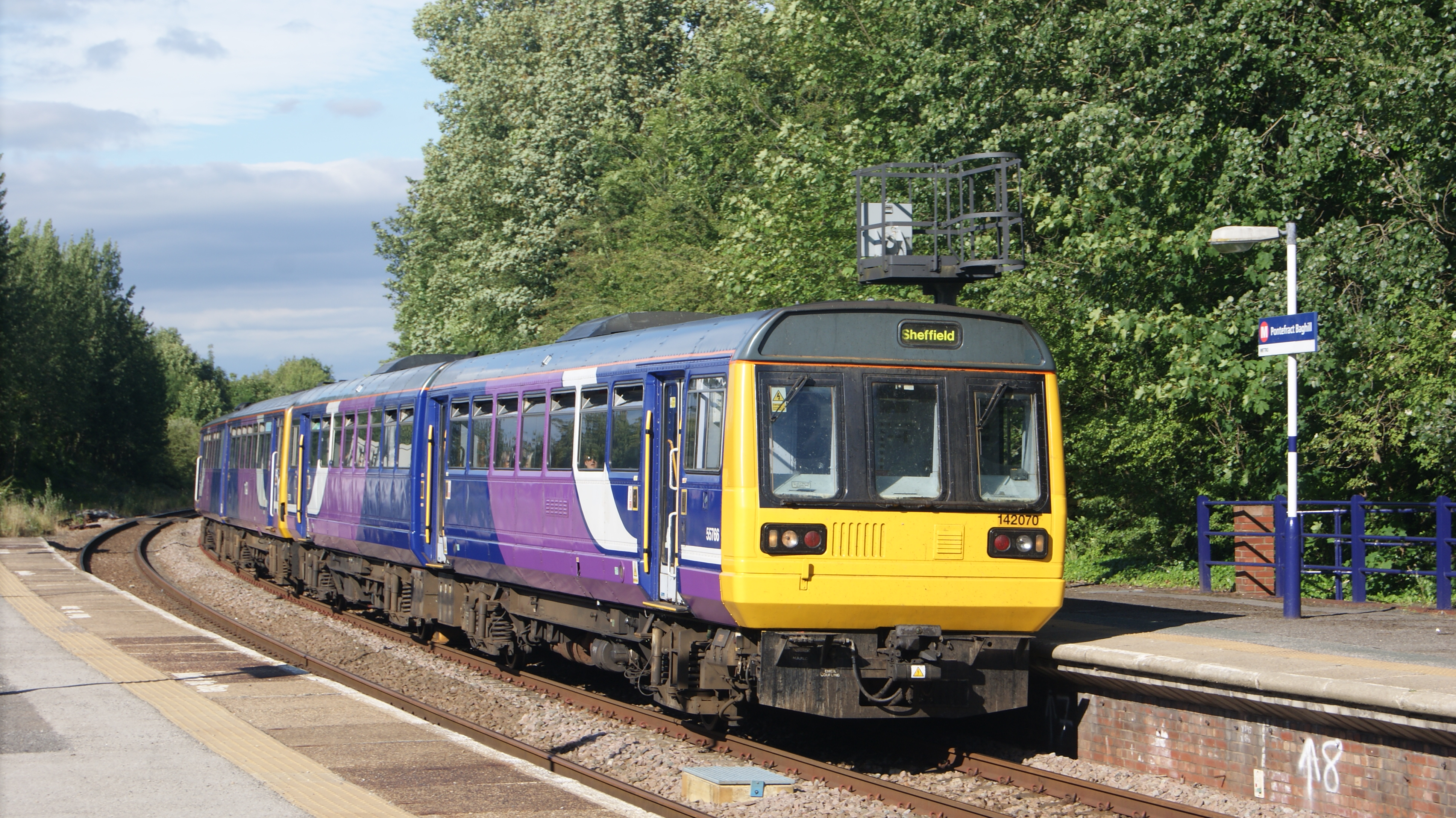 British Rail Class 142 DMU coupled with a British Rail Class 144 DMU at Pontefract Baghill railway station, Pontefract, West Yorkshire. Taken on the evening of Friday the 5th of July 2019.